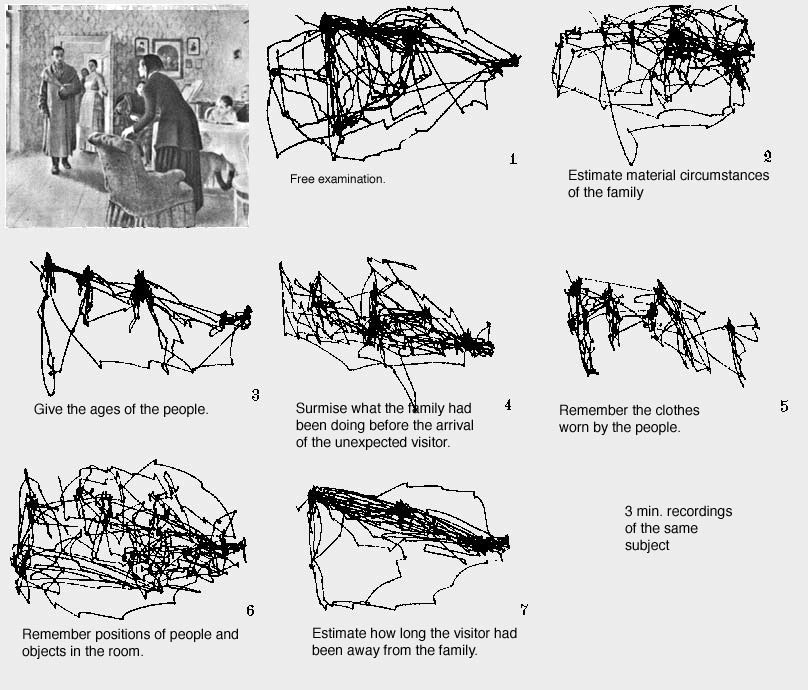 This data from Yarbus (1967) is often referred to when arguing that the task given to a person has a strong influence on his or her eye movements.